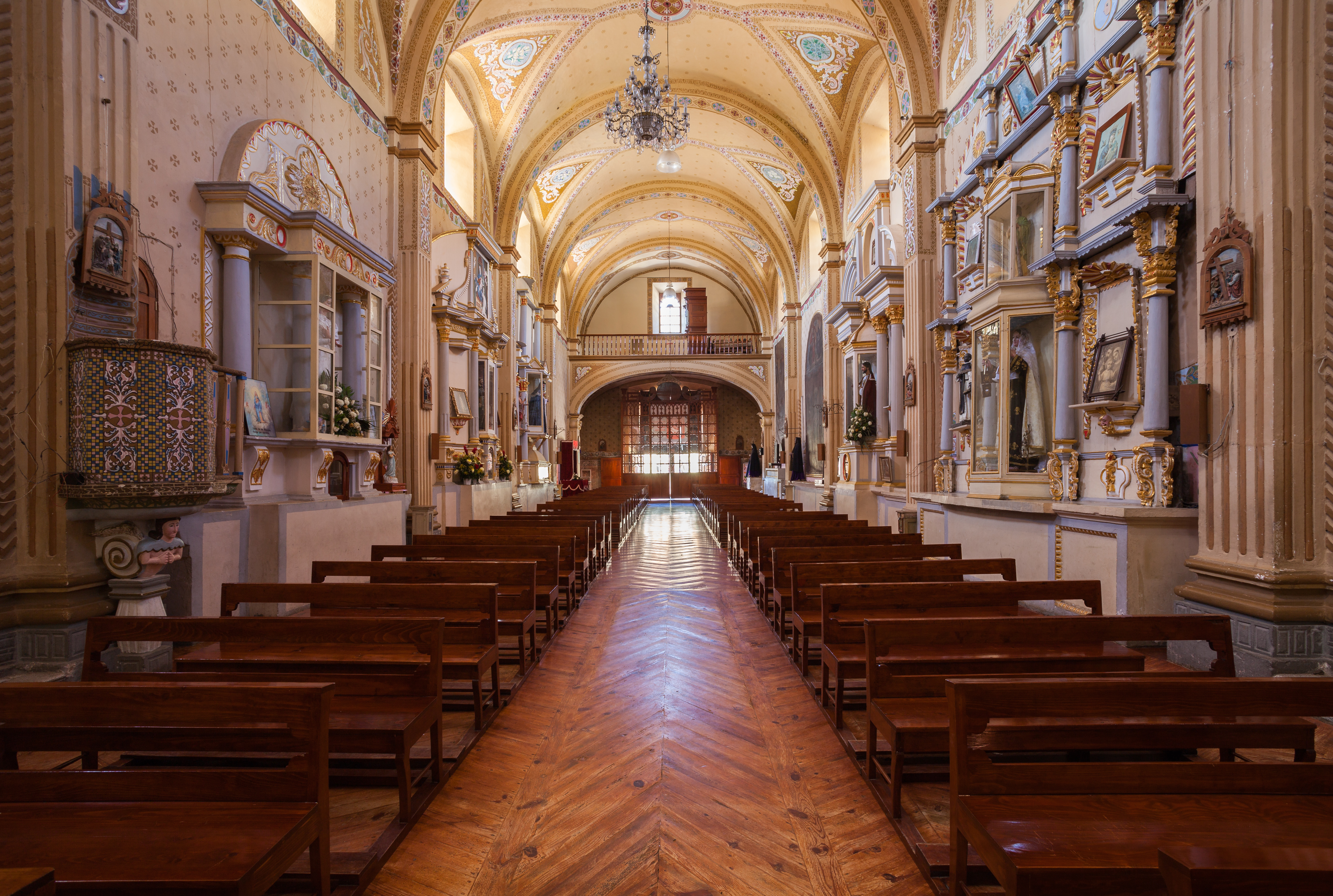 Hermitage of St Peter, Tepeyahualco, Puebla, Mexico